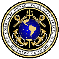 COMUSNAVSO Logo